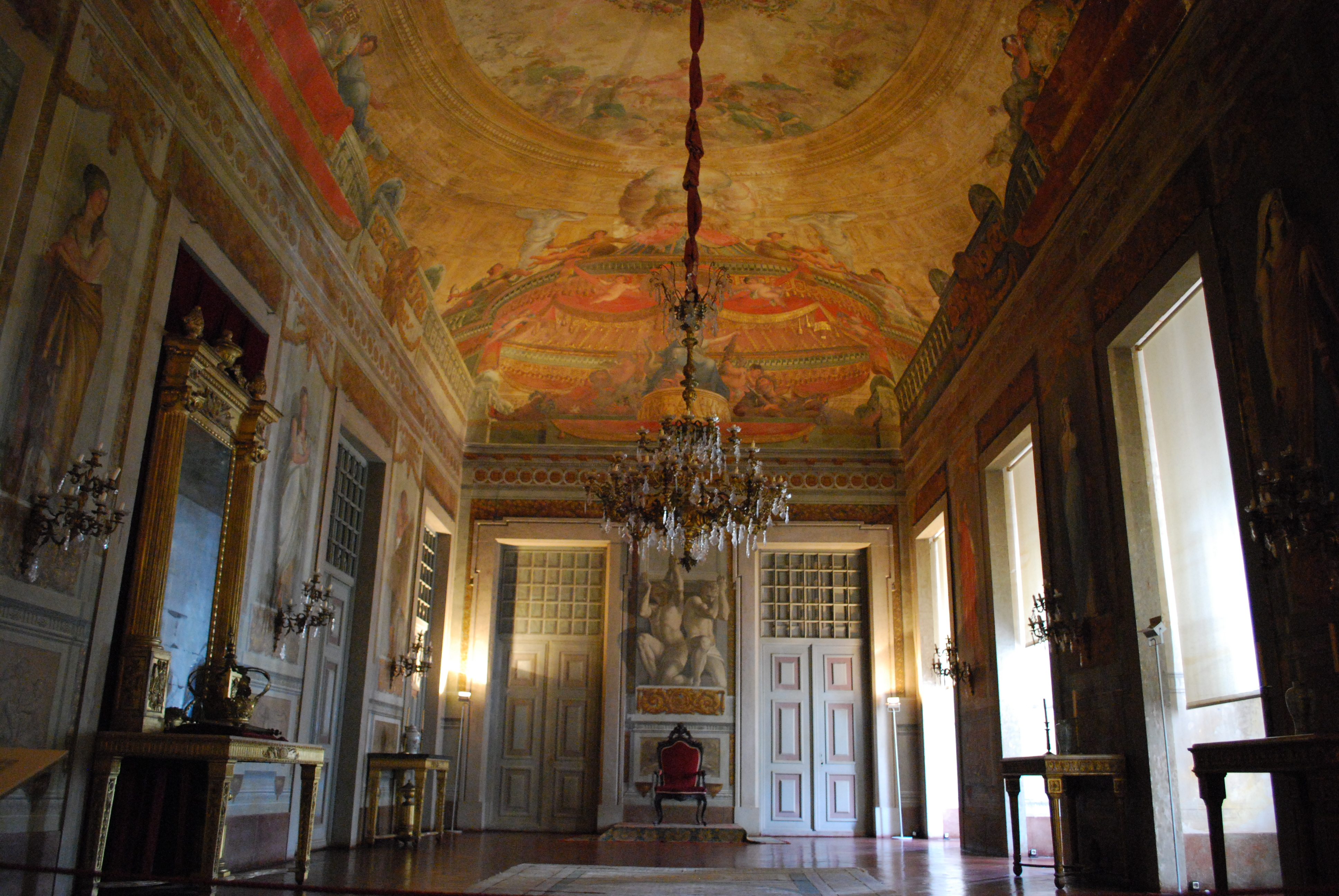 This file was uploaded for Wiki Loves Monuments in Portugal with the unique identifier 69940.